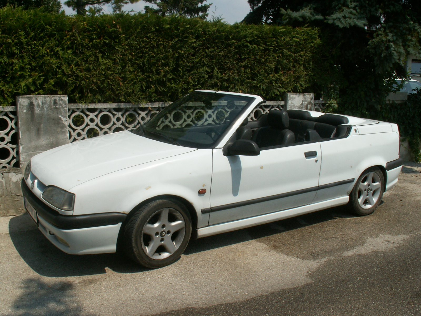 1993 Renault 19 II Cabriolet with open roof